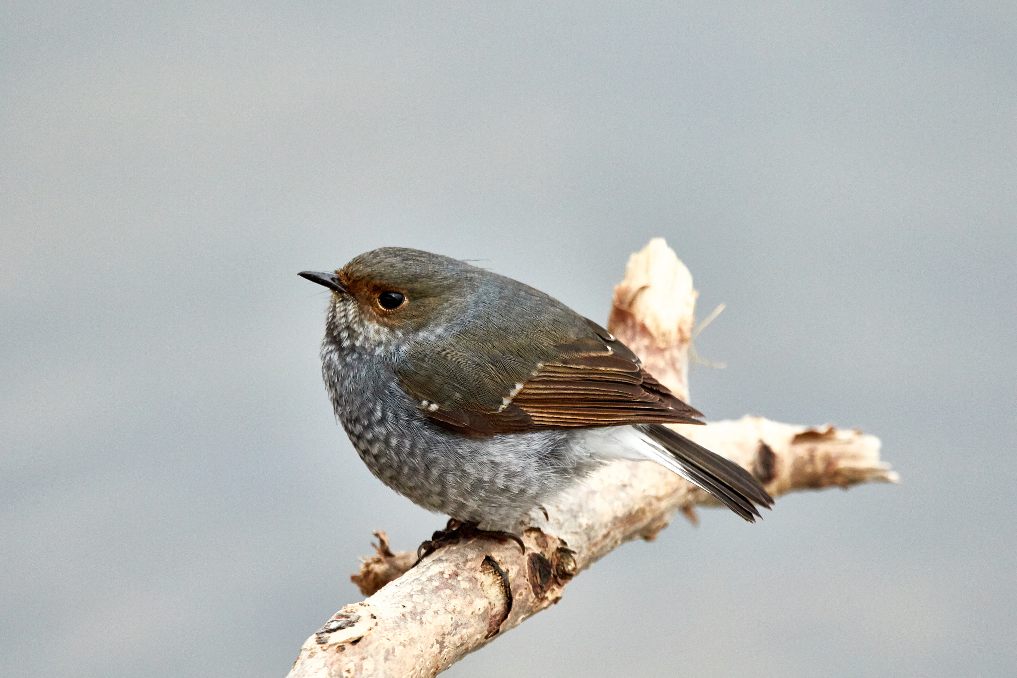 500px provided description: Plumbeous Water Redstart ???? ?? [#birds ,#water ,#bird ,#animal ,#wildlife ,#wild ,#redstart ,#Plumbeous Water Redstart ,#plumbeous ,#???? ??]